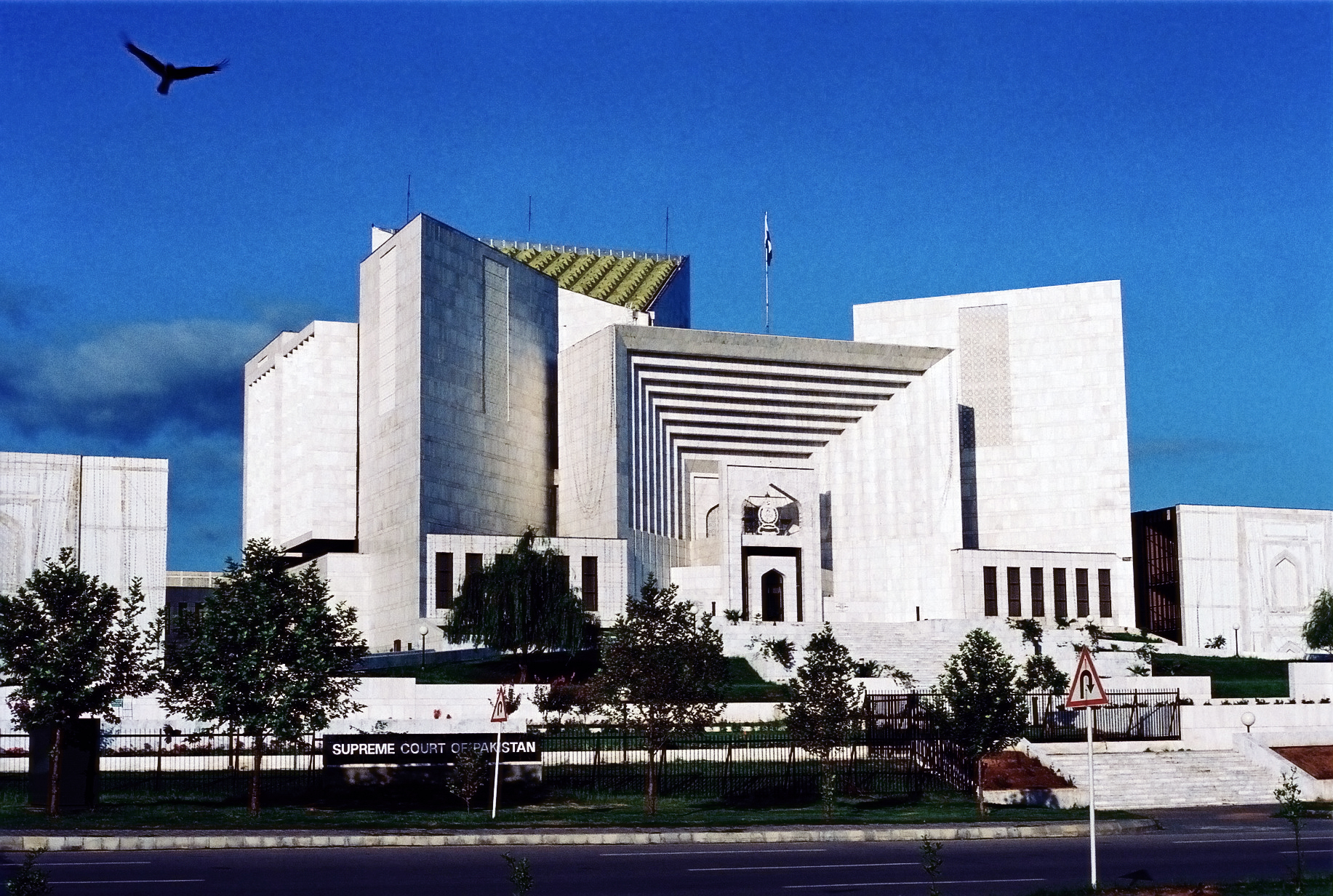 Supreme Court of Pakistan This is a photo of a monument in Pakistan identified as the ICT-9